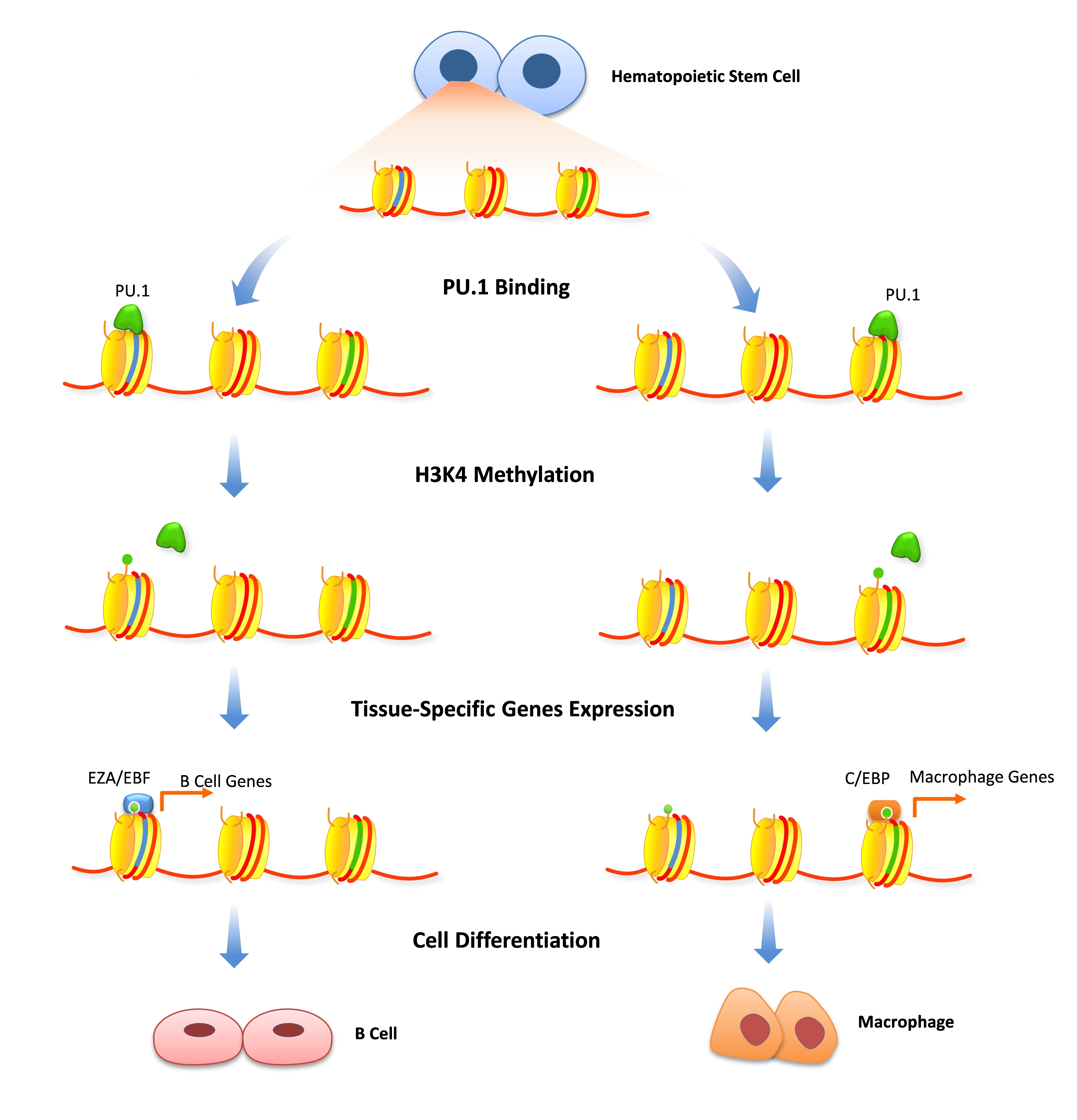 The same Pioneer Factor binds to different locations in two different cells during the cell differnetiation